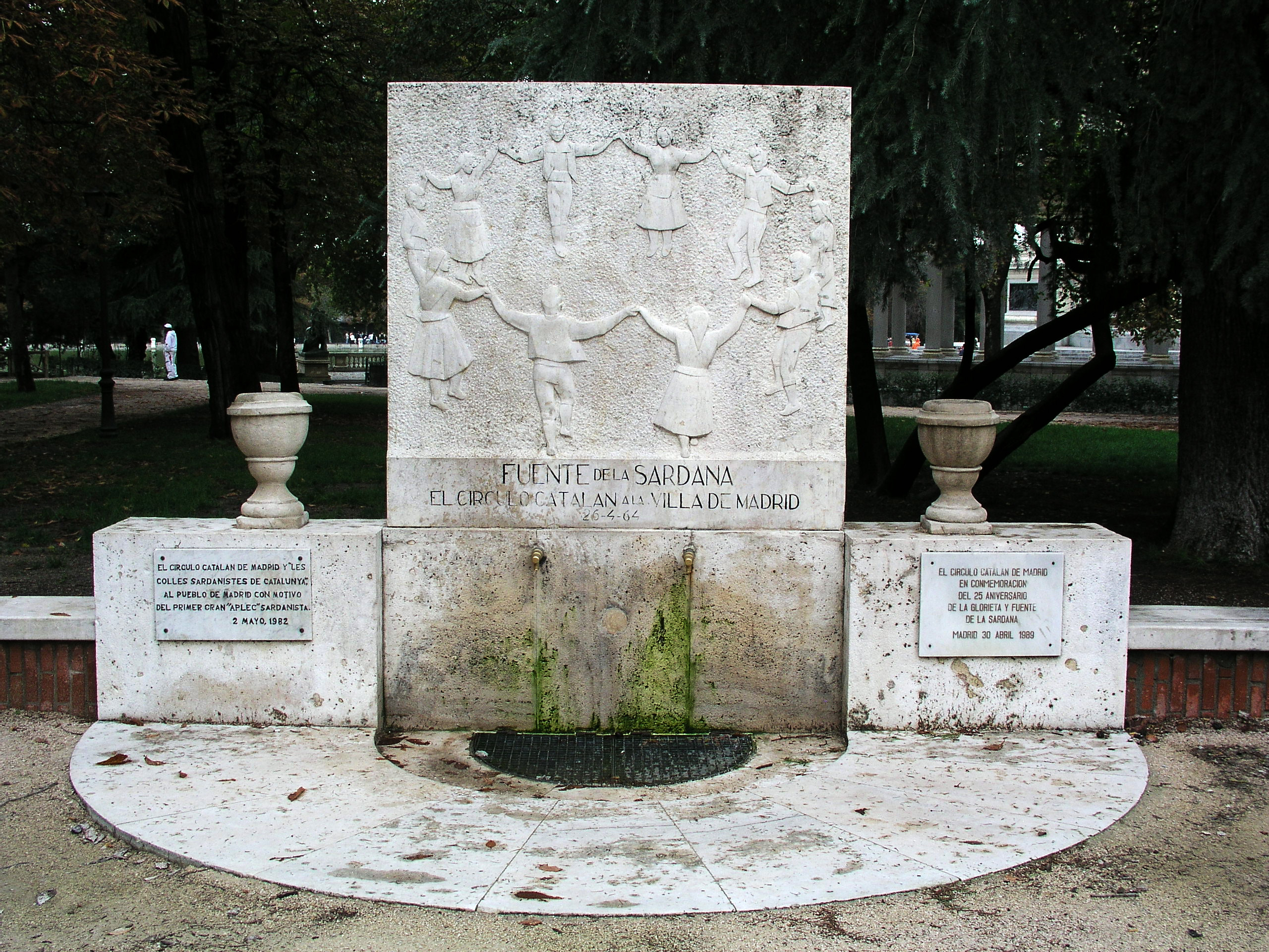 Fuente de la Sardana ("Fountain of the Sardana"), at the Glorieta de la Sardana (a roundabout) in the Retiro Park (Jardines del Buen Retiro) in Madrid (Spain). It's a stone work by José Cañas y Cañas and it was inaugurated on April 26, 1964, as a monument dedicated to the City of Madrid by the Círculo Catalán de Madrid ("Catalan Circle of Madrid"). The relief shows a group of figures with traditional clothes dancing a sardana (a traditional circle dance in Catalonia).